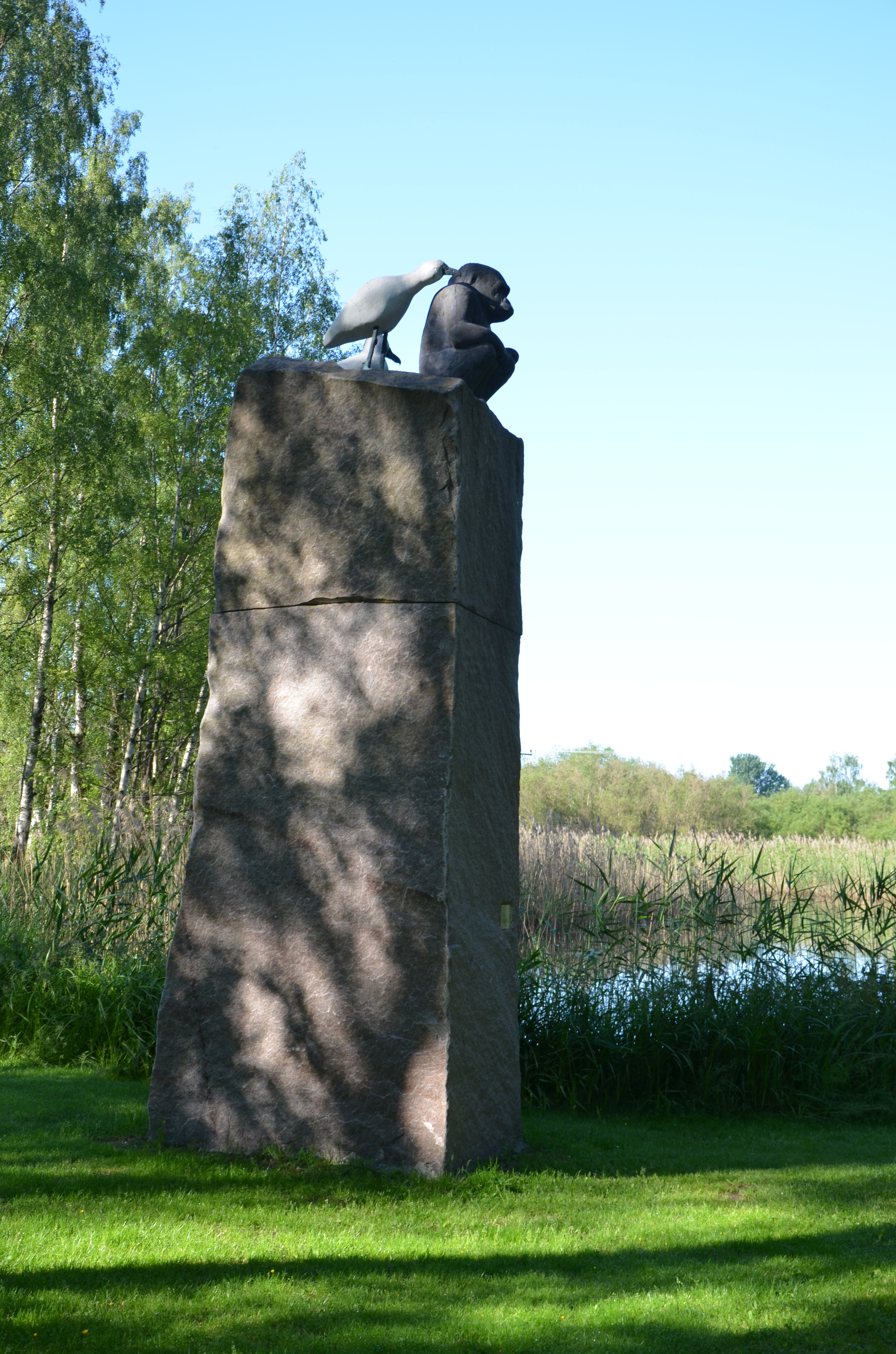 Torsten Molanders Fågeltempel, 1998, ekebergsmarmor, bjärlövgranit, brons och betong, Lilla Å-promenaden i Örebro